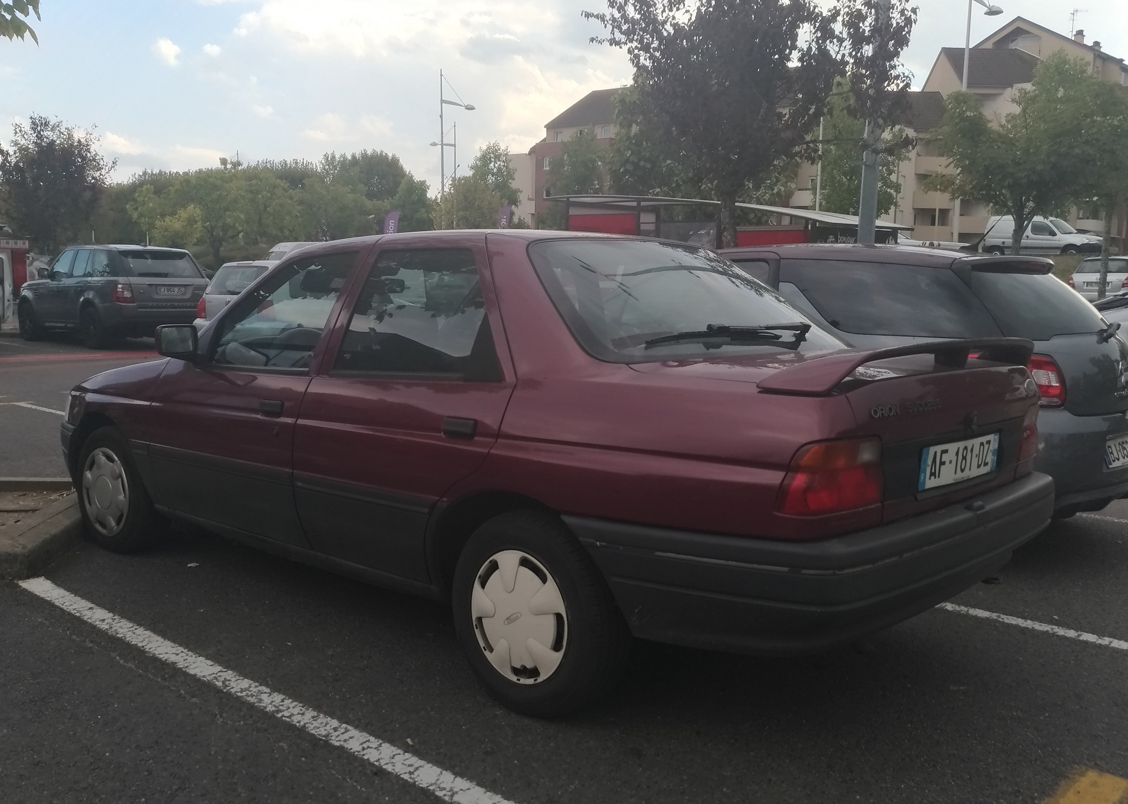 1992 Ford Orion (1.8 D 60 hp) at Chalon sur Saône